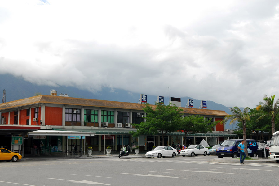 HuaLien Station is a major train station of North-Link Line, part of Taiwan's eastern rail line. It is the main station of HuaLien City, HuaLien County.